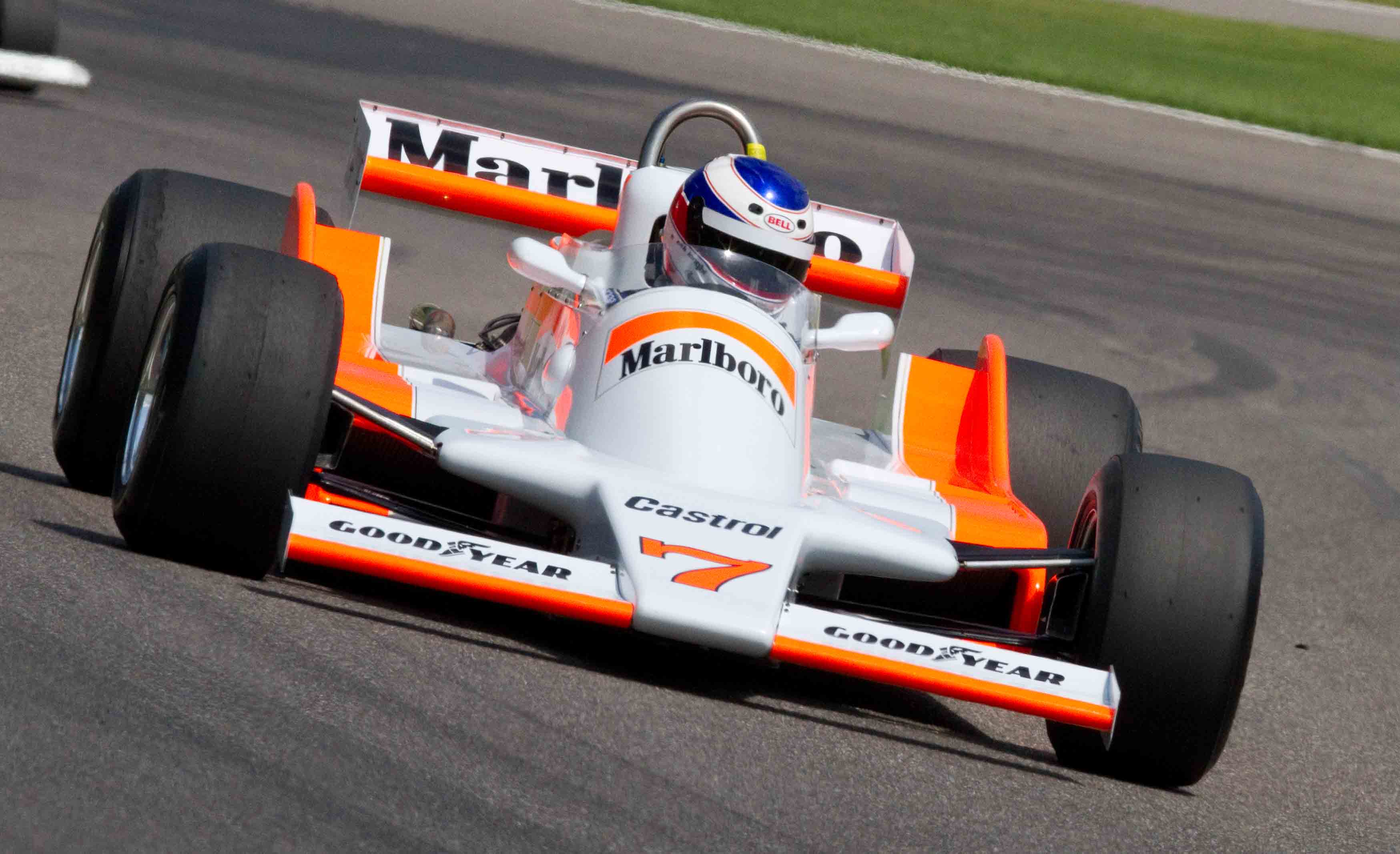 McLaren M28 1979 of John Watson at Barber Motorsports Park, 2010